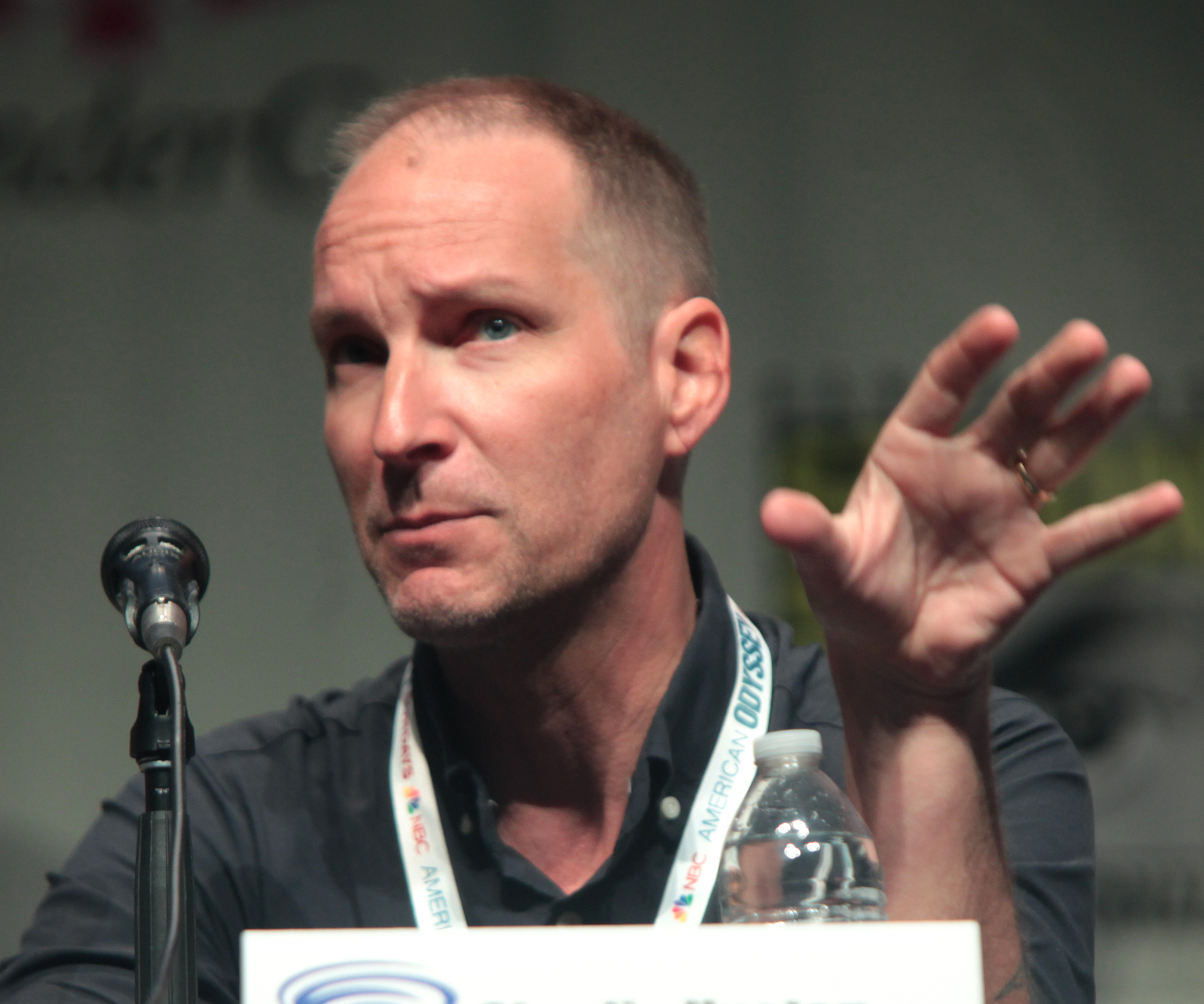 Charlie Huston speaking at the 2015 Wondercon, for "Powers", at the Anaheim Convention Center in Anaheim, California.